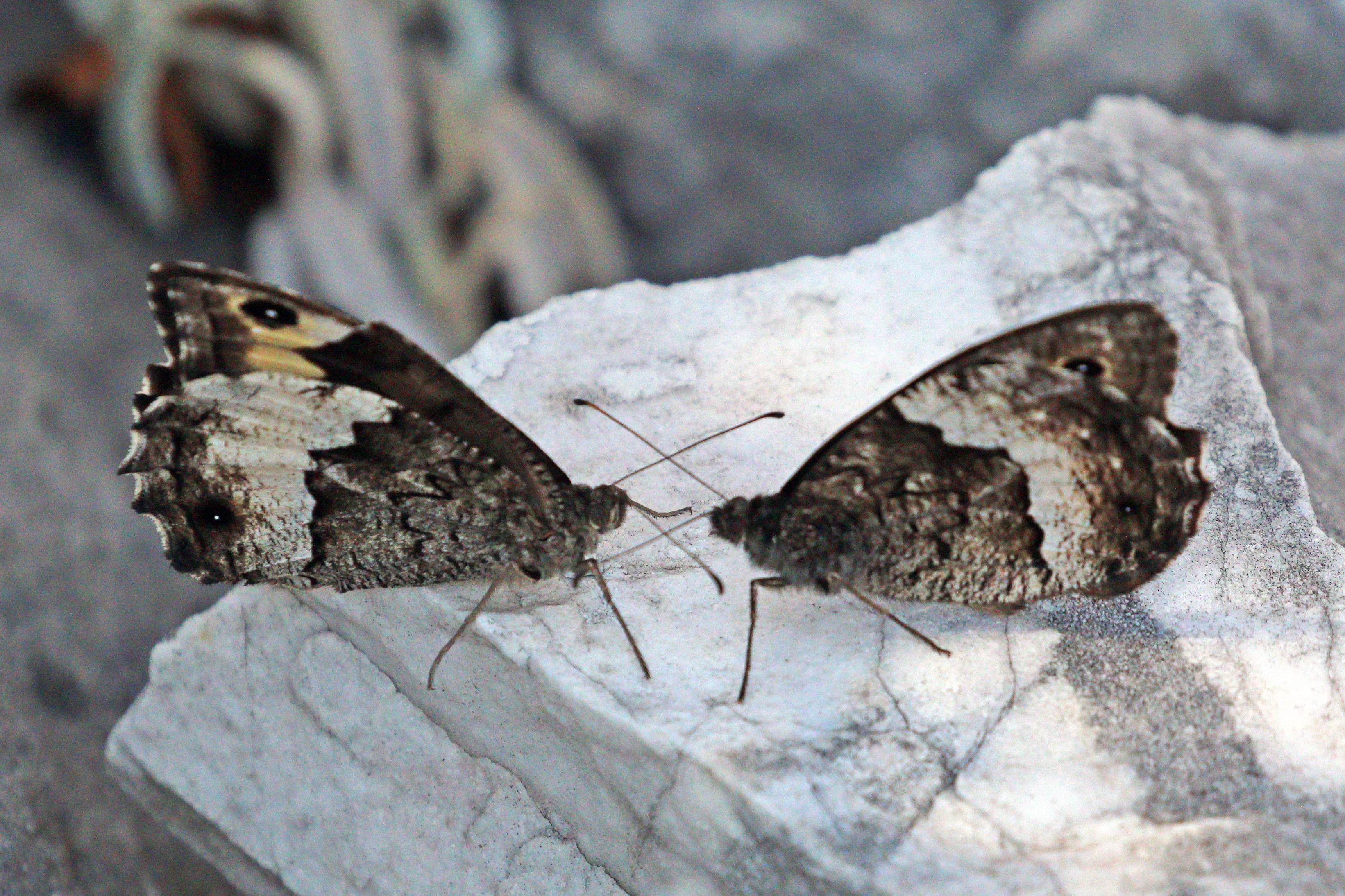 Woodland grayling (Hipparchia fagi) courting female (l) male (r), Pletvar, Republic of Macedonia